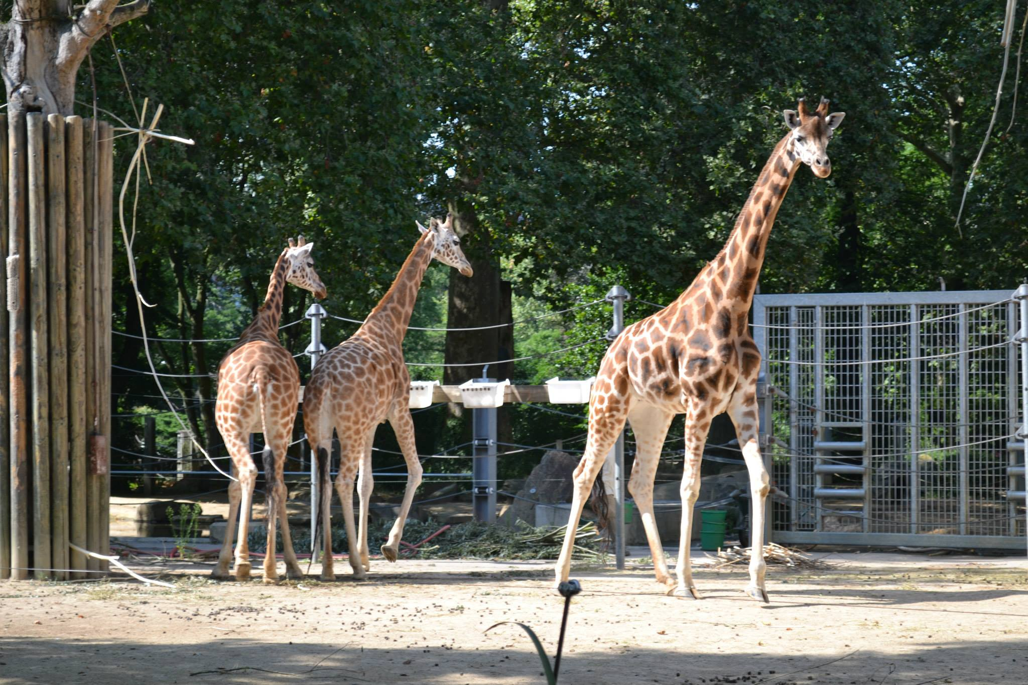 Giraffe in ZOO Antwerpen